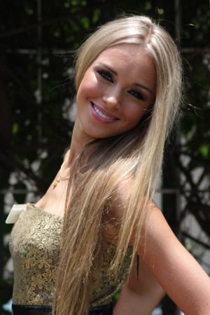 Miss Russia 2008 Ksenia Sukhinova during Miss World 08 in Johannesburg